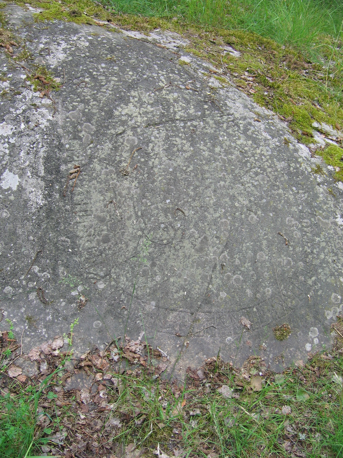 runic inscription near Stockholm